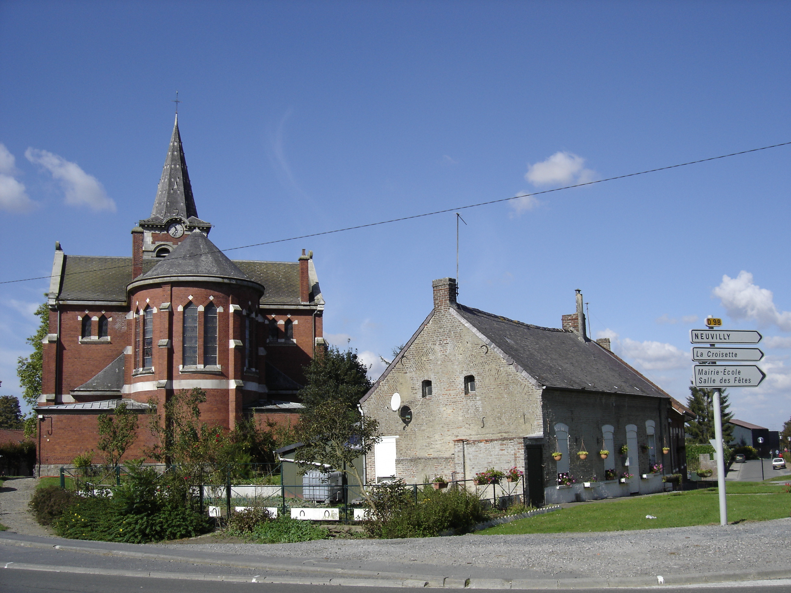 Forest-en-Cambrésis Center of the village with church